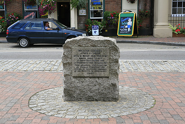 William Cobbett memorial, High Street, Botley. The inscription reads: William Cobbett 1763-1835 lived in Botley near this spot circa 1805-1817 A great Englishman and a champion of free journalism This memorial was erected by public subscription Openend by Hampshire members of the Institute of Journalists 1957